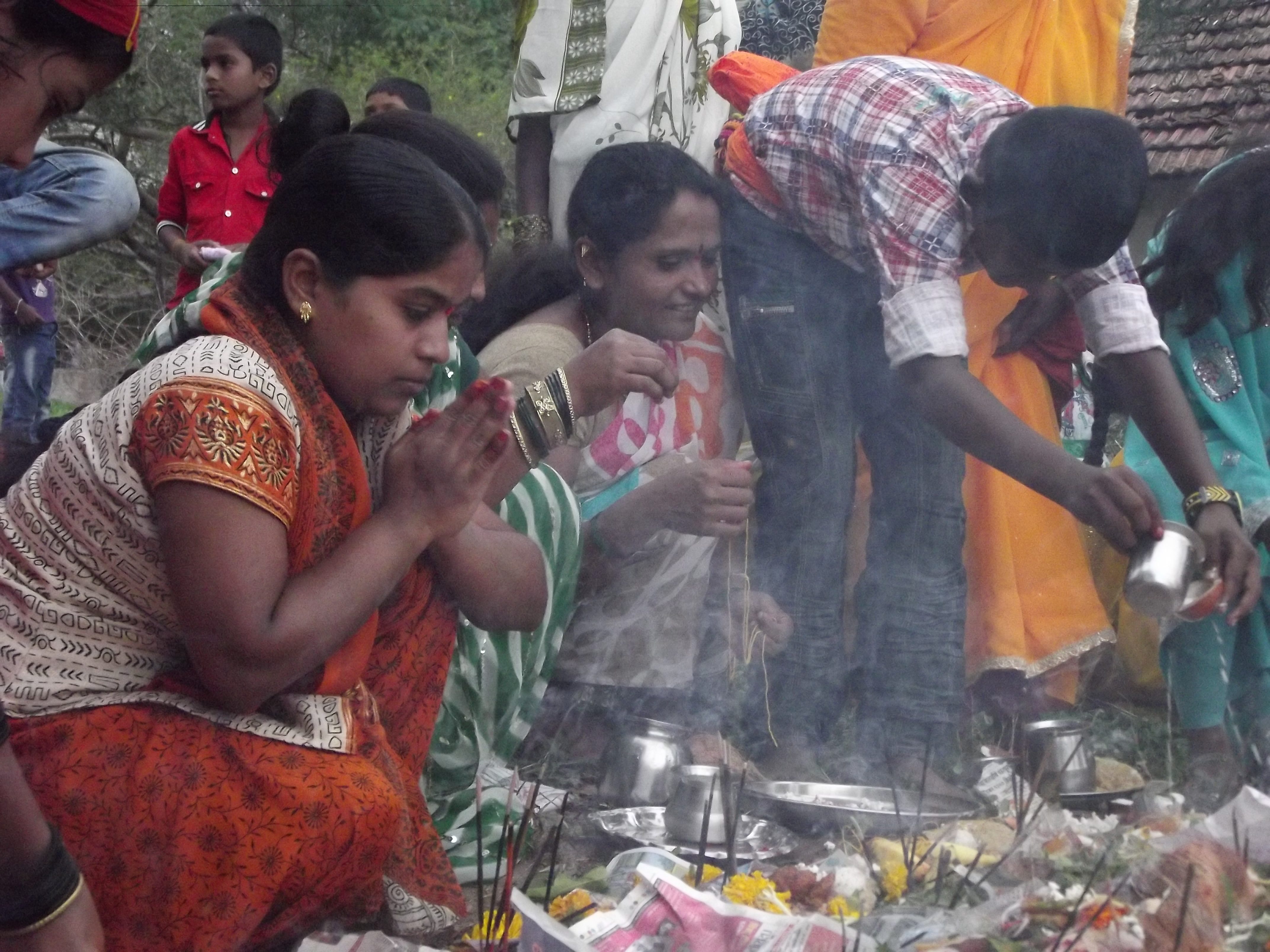 Nagpanchami Festival in Pune